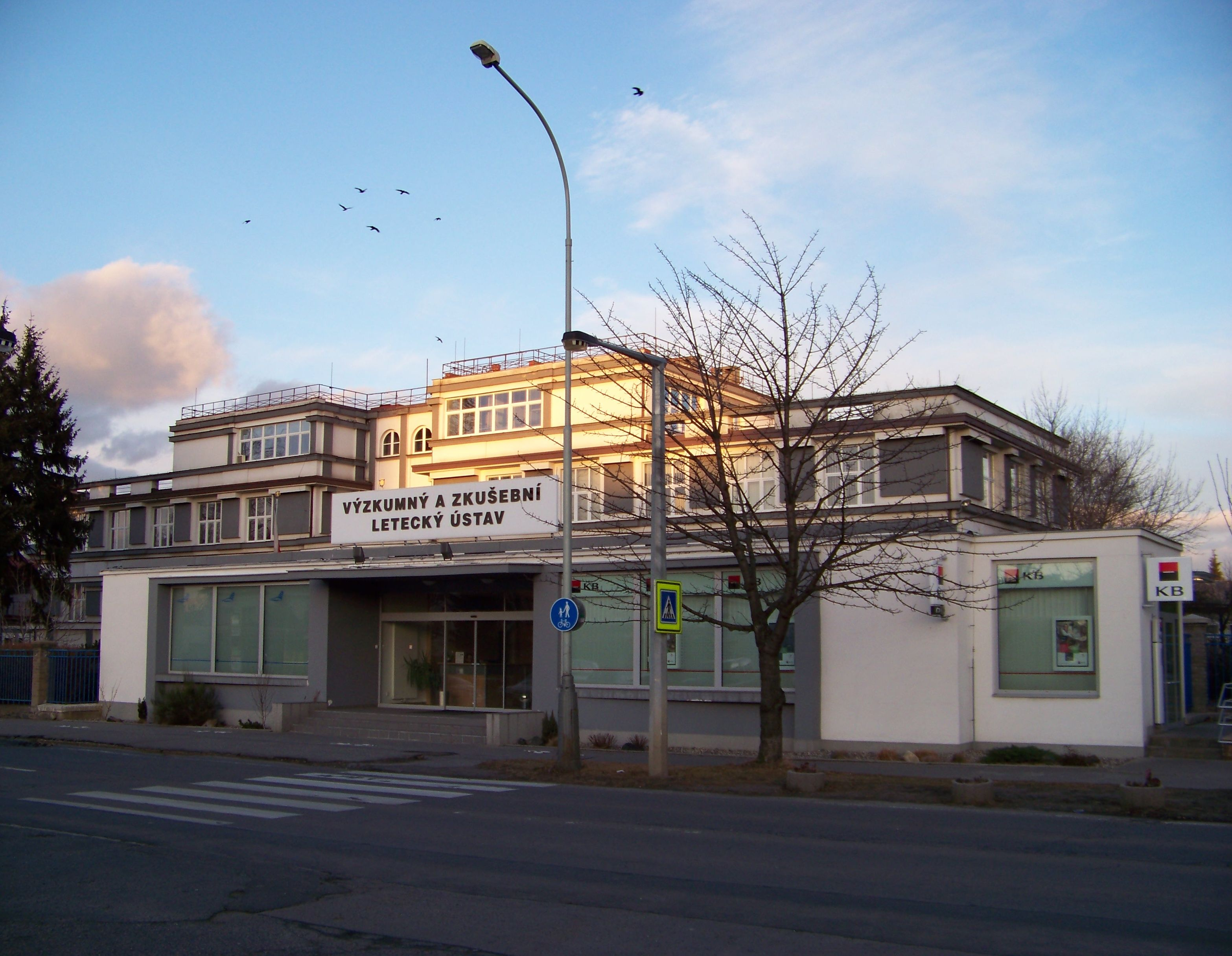 Prague-Letňany, the Czech Republic. Beranových street, Aerospace Research and Test Establishment. - OpenStreetMap(Info)